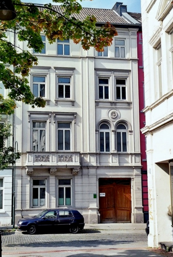 Birthplace of Ludwig Mies van der Rohe at Steinkaulstrasse 29 in Aachen, Germany.